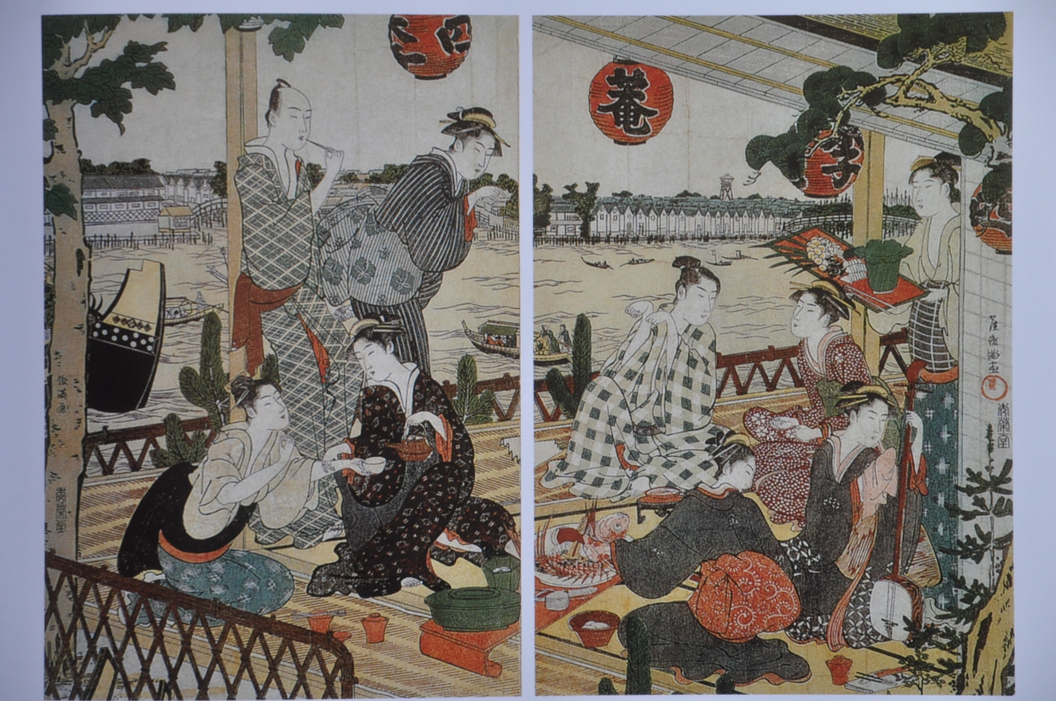 This woodcut print by Kubo Shunman, (not Utamaro) shows a party dining at restaurant Shikian (ca. 1786).